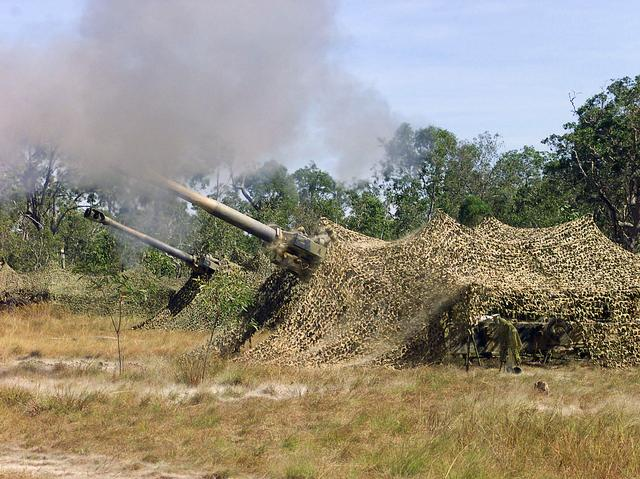 ID: DMSD0210189 Service Depicted: Multi-National 010526M6664H002 Operation / Series: TANDEM THRUST 2001 The AustralianAn Armys 101 Medium Battery 8/12 Medium Regiment, M98 Howitzer send rounds down range during a live fire exercise in the Shoalwater Bay Military Training Area during Exercise TANDEM THRUST 2001. TANDEM THRUST is a combined United States and AUSTRALIAn military training exercise. This biannual exercise is being held in the vicinity of Shoalwater Bay training area, Queensland, AUSTRALIA. More than 27,000 Soldiers, Sailors, Airmen and Marines are participating, with Canadian units taking part as opposing forces. The purpose of TANDEM THRUST is to train for crisis action planning and execution of contingency response operations. Location: SHOALWATER BAY, QUEENSLAND AUSTRALIA (AUS) Camera Operator: LCPL MARCUS D HENRY, USMC Date Shot: 26 May 2001